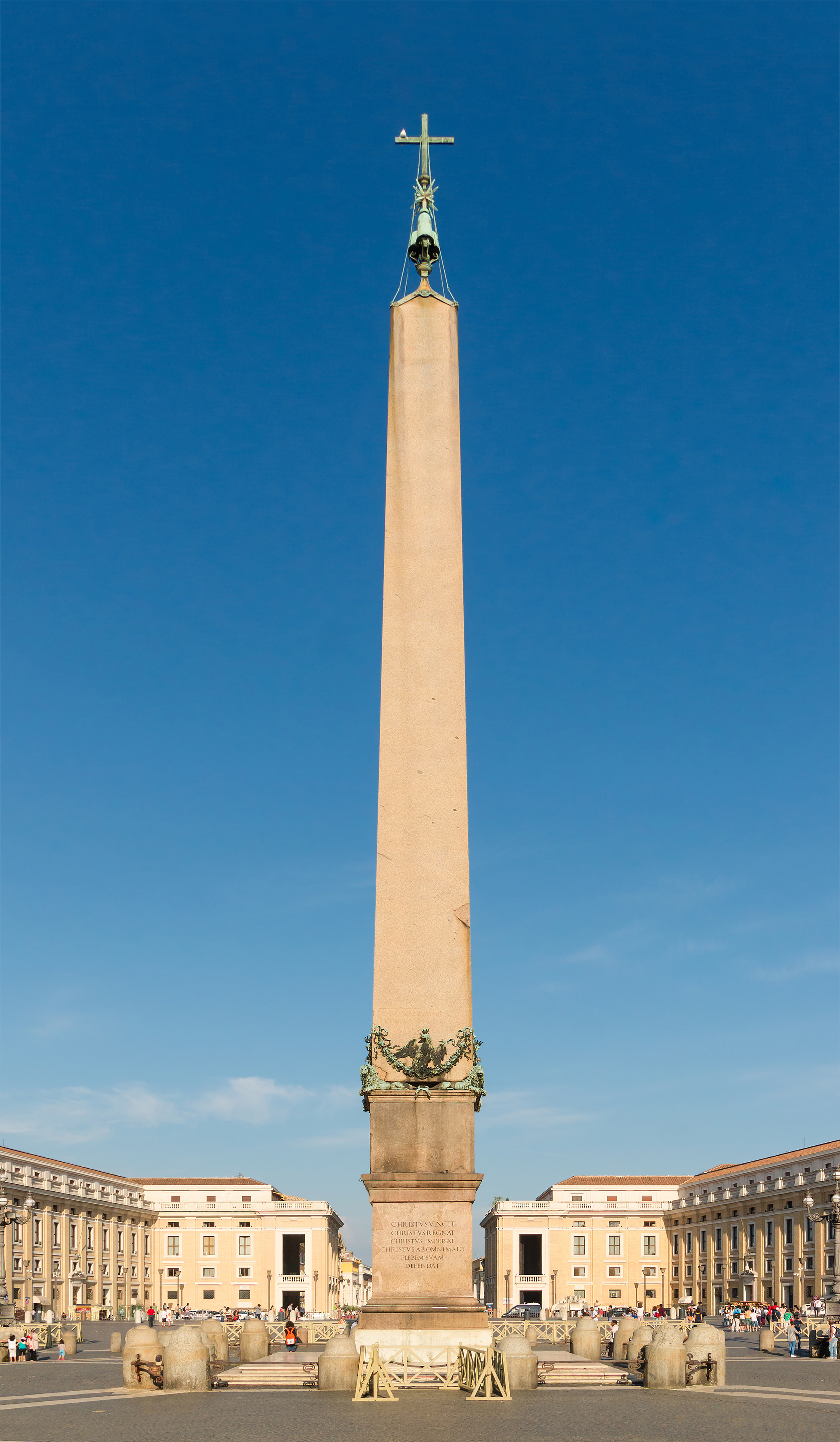 The Saint Peter's Square obelisk. And the gull. Vatican City